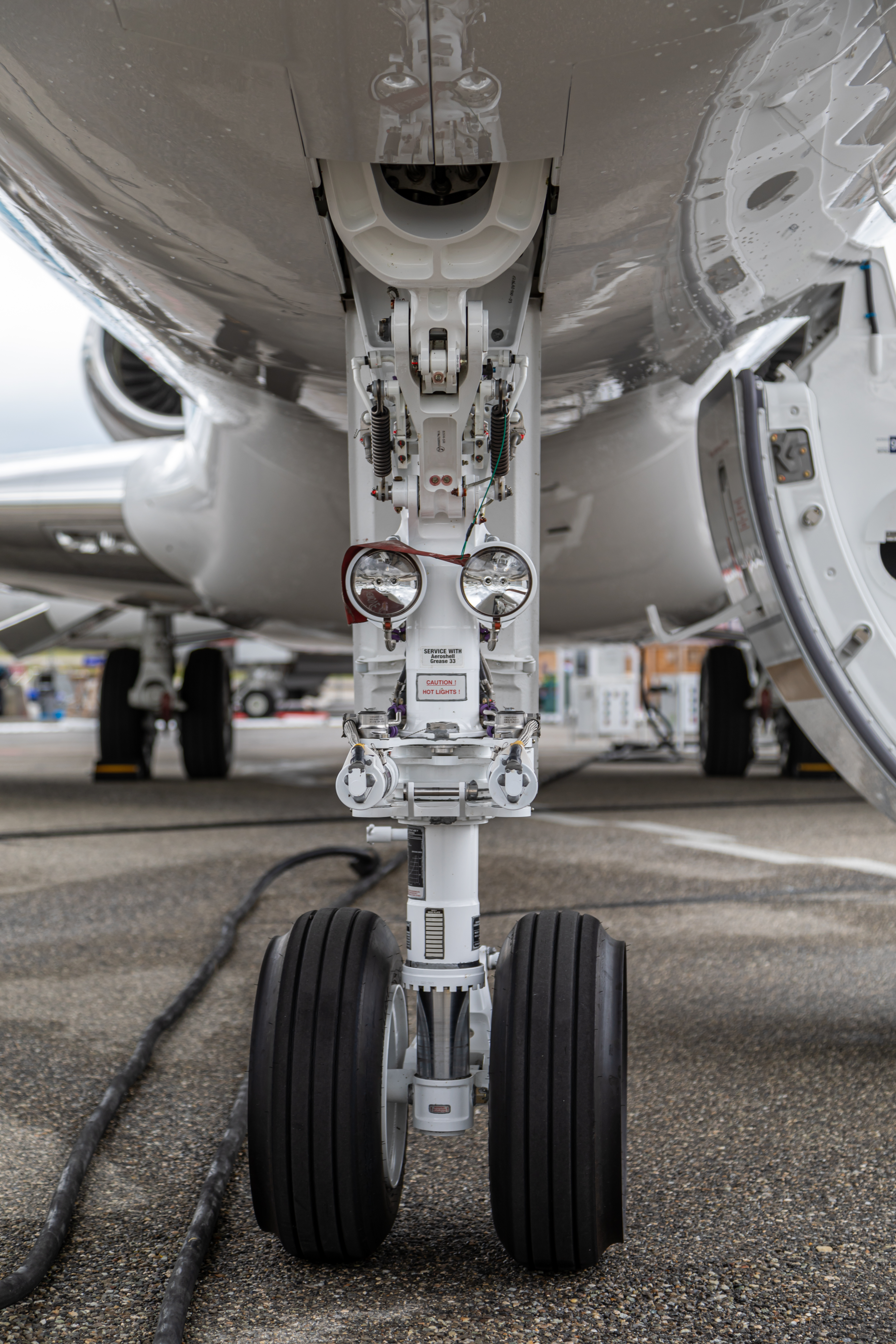 Undercarriage of a Bombardier Global 6000 at EBACE 2019, Palexpo, Switzerland